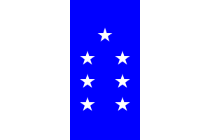 Flag of Ecuador, Nov 1845-Sep 1860